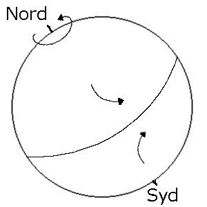 Display of the wind direction around a low pressure area.